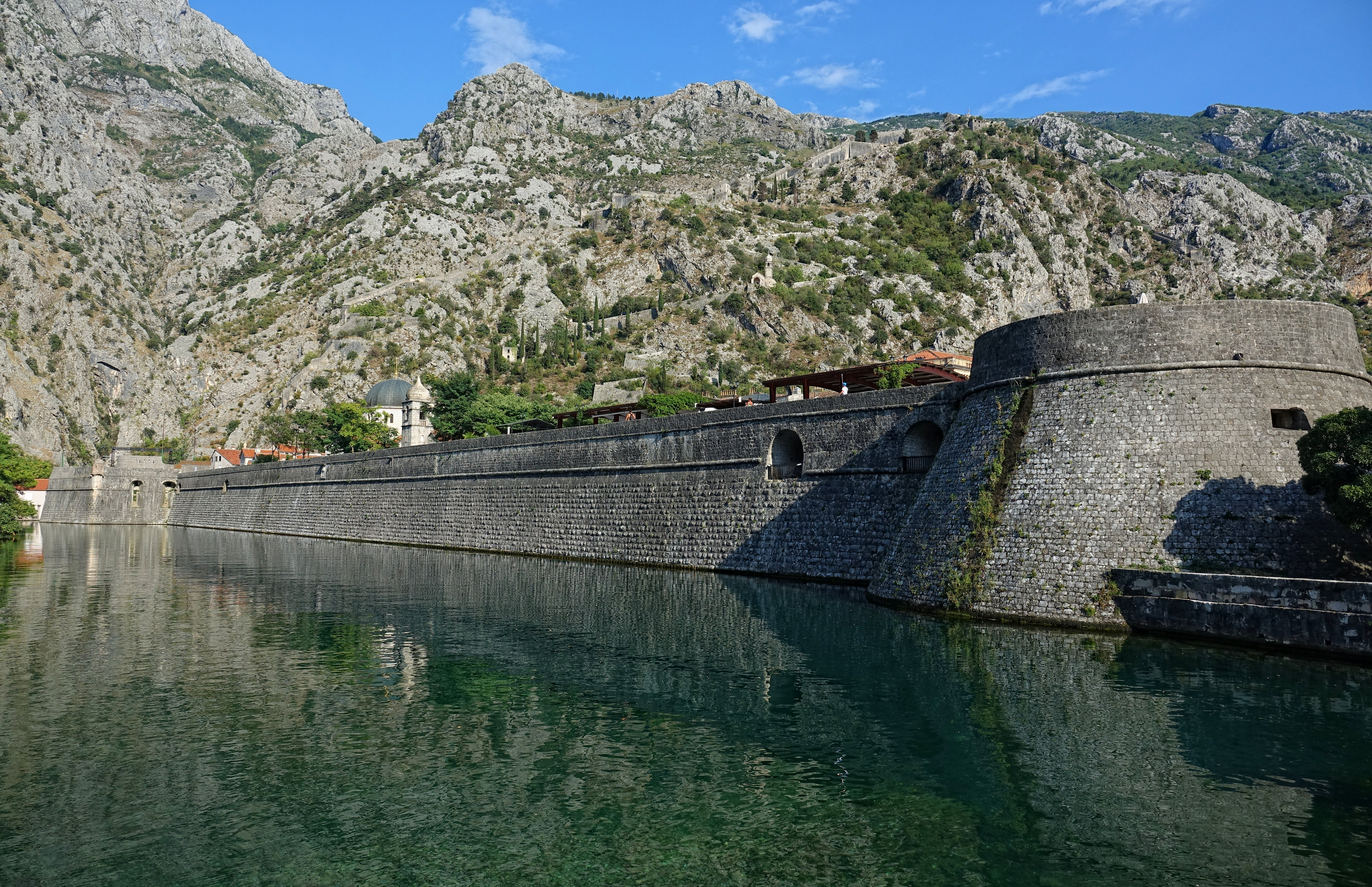 The Scurda inlet along the walls of the old town in Kotor, Montenegro.